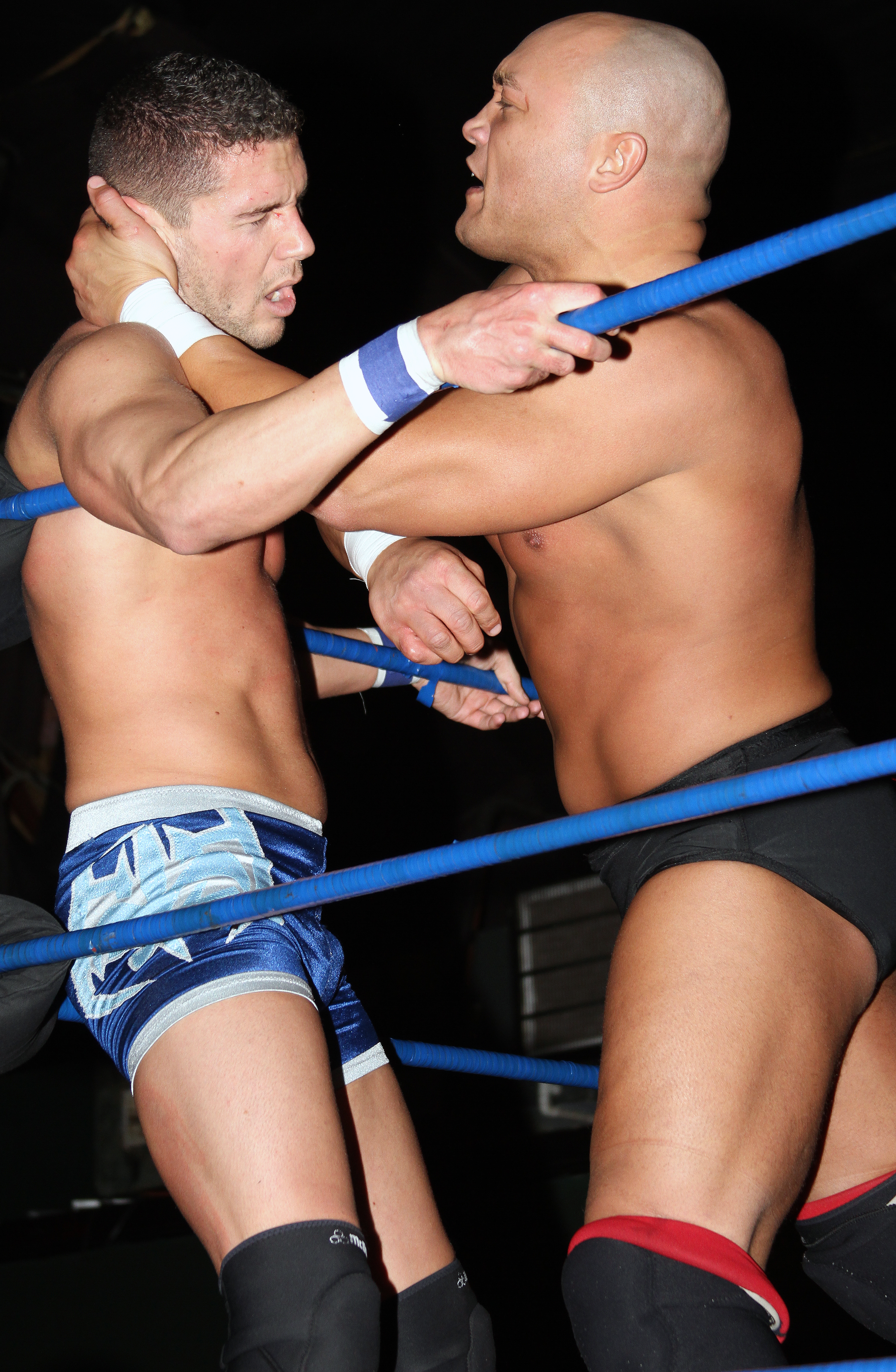 Paparazzo Presents..."Shooter" Vordell Walker